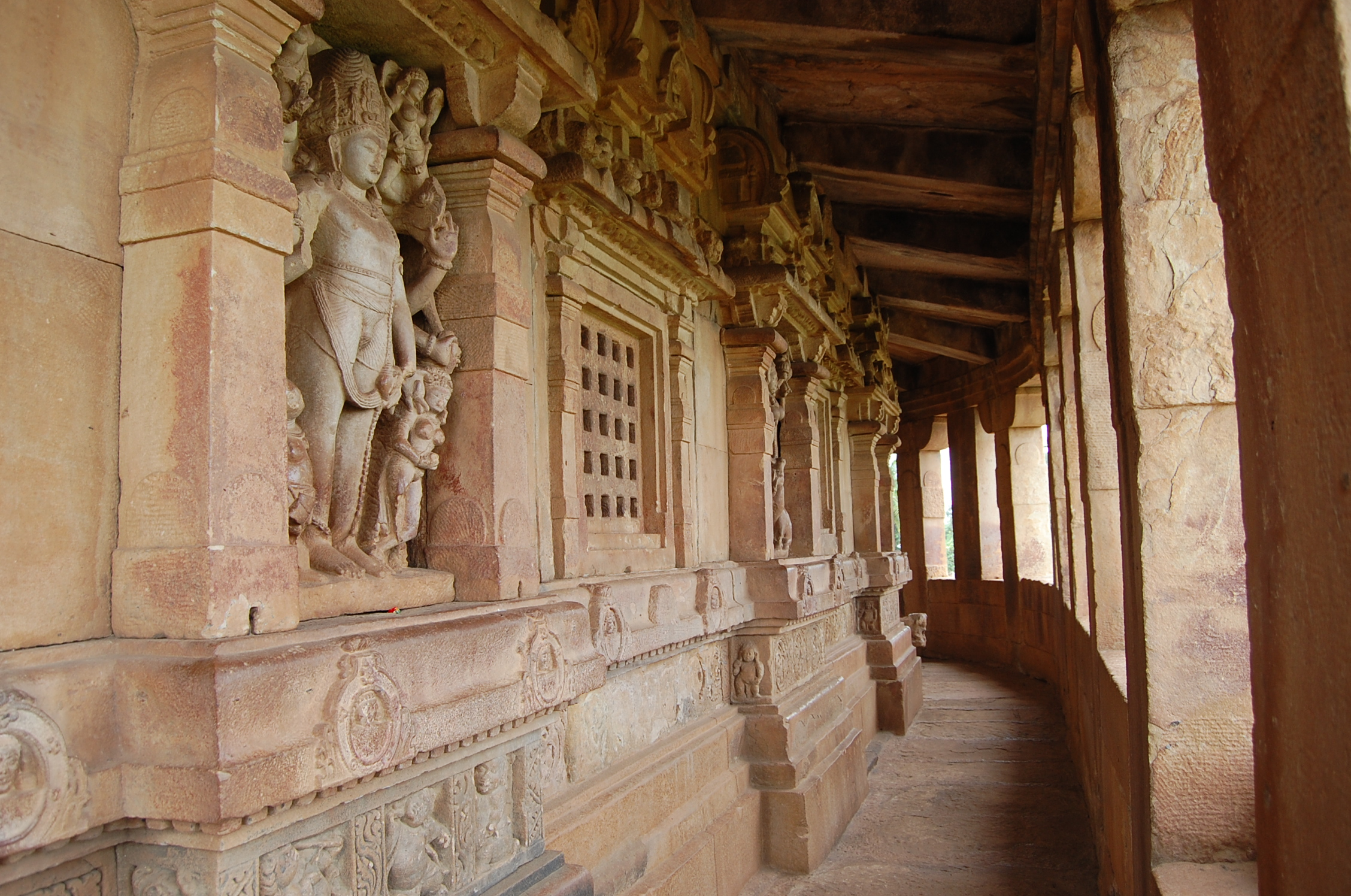 Aihole Temple